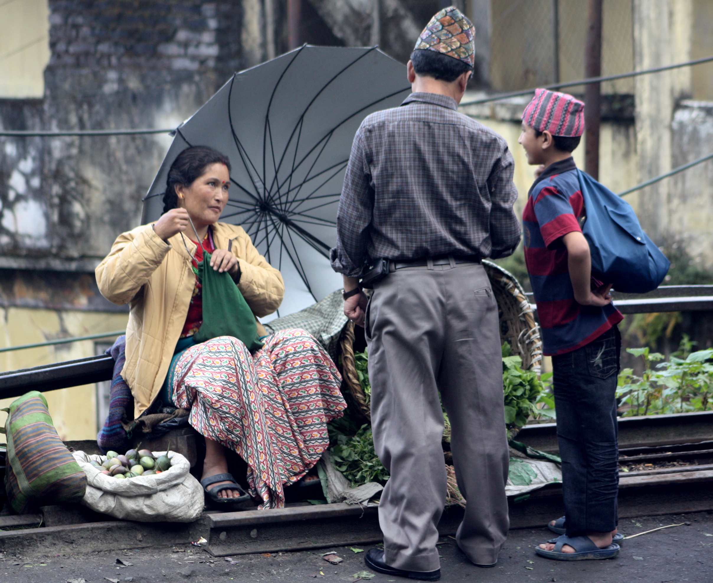 A Gorkha family, wearing Gorkha caps, shopping in Darjeeling market.